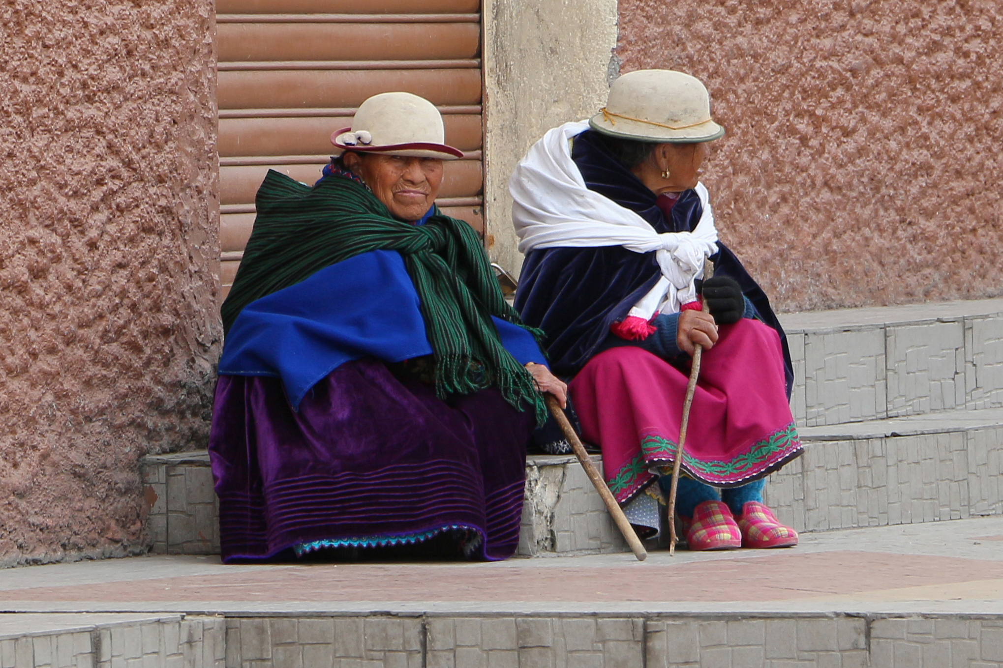 Cañari women, Cañar, Ecuador